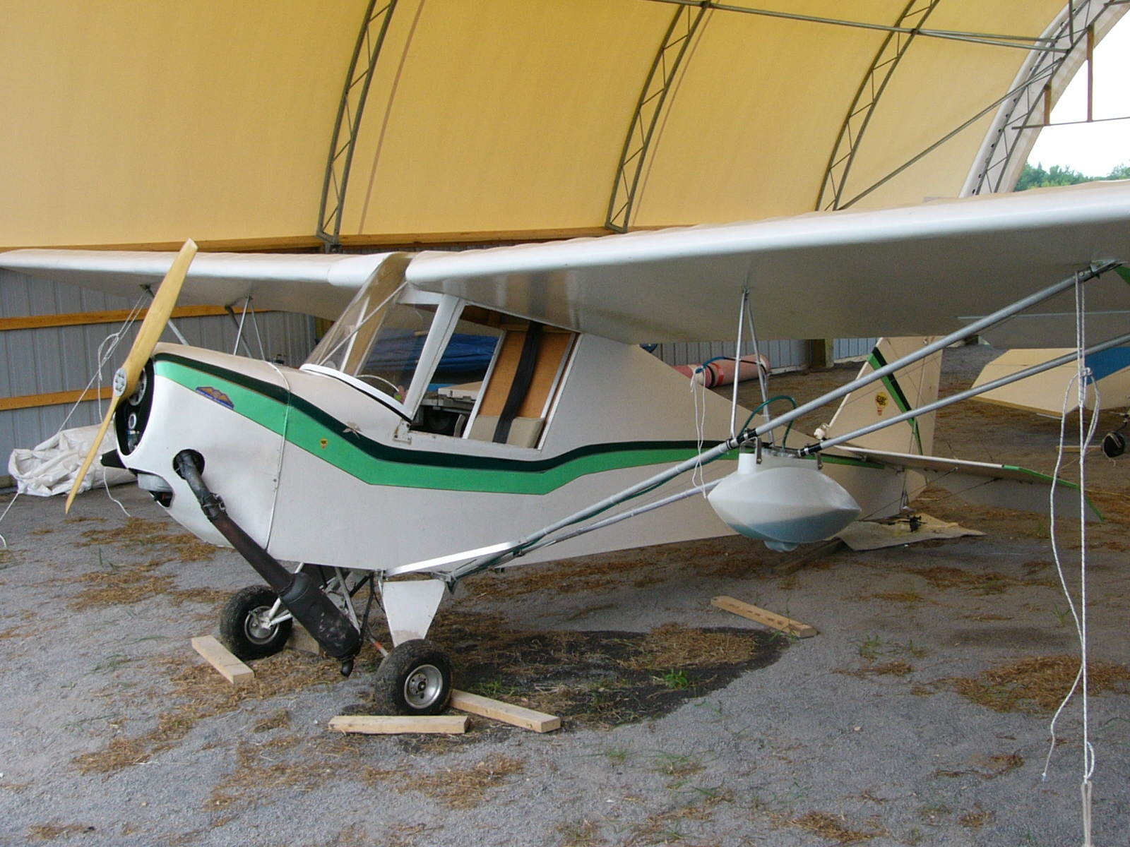 Fisher FP-101 ultralight at Hawkesbury, Ontario